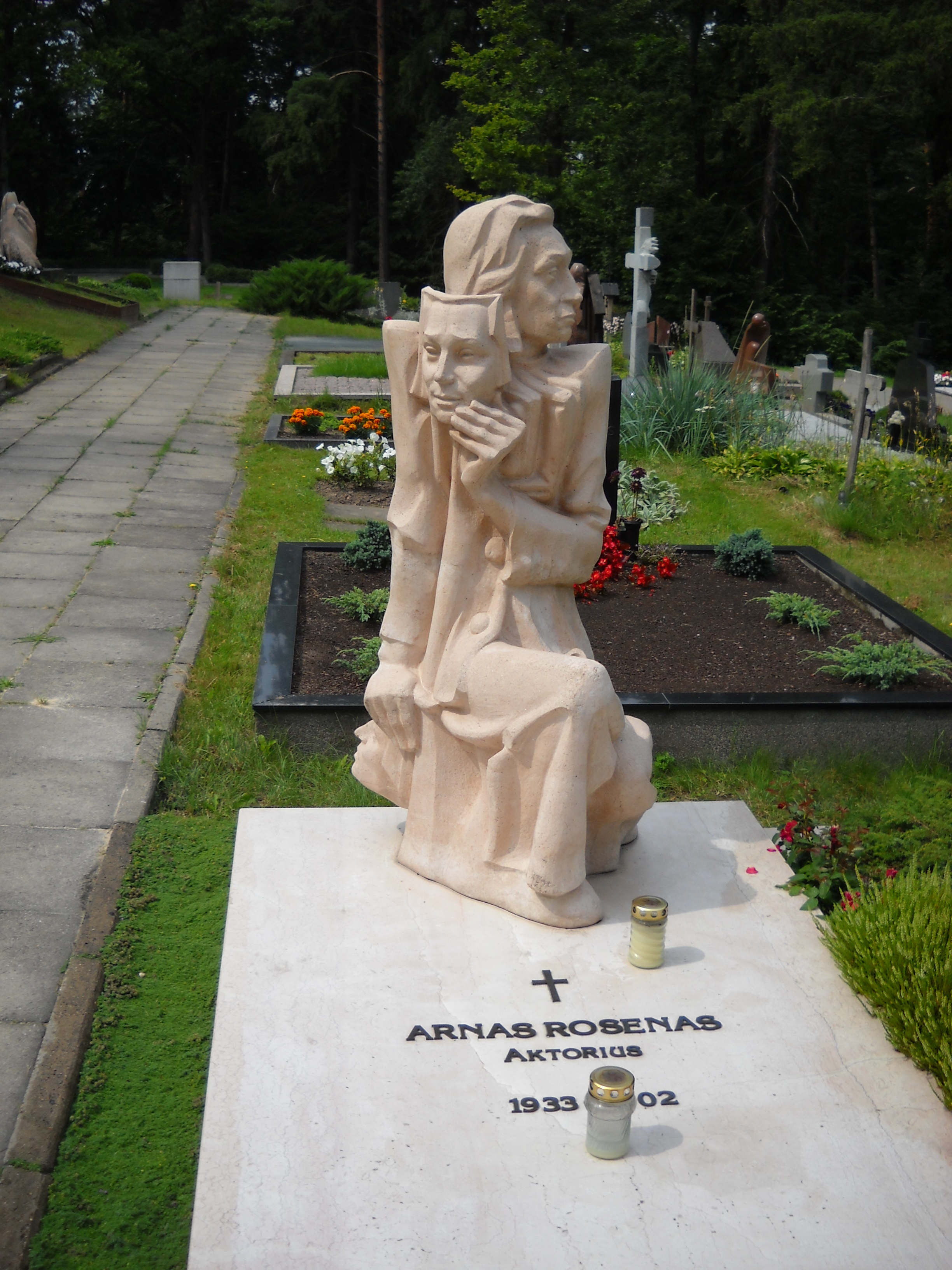 Grave of Lithuanian actor Arnas Rosenas. Antakalnis cemetery.